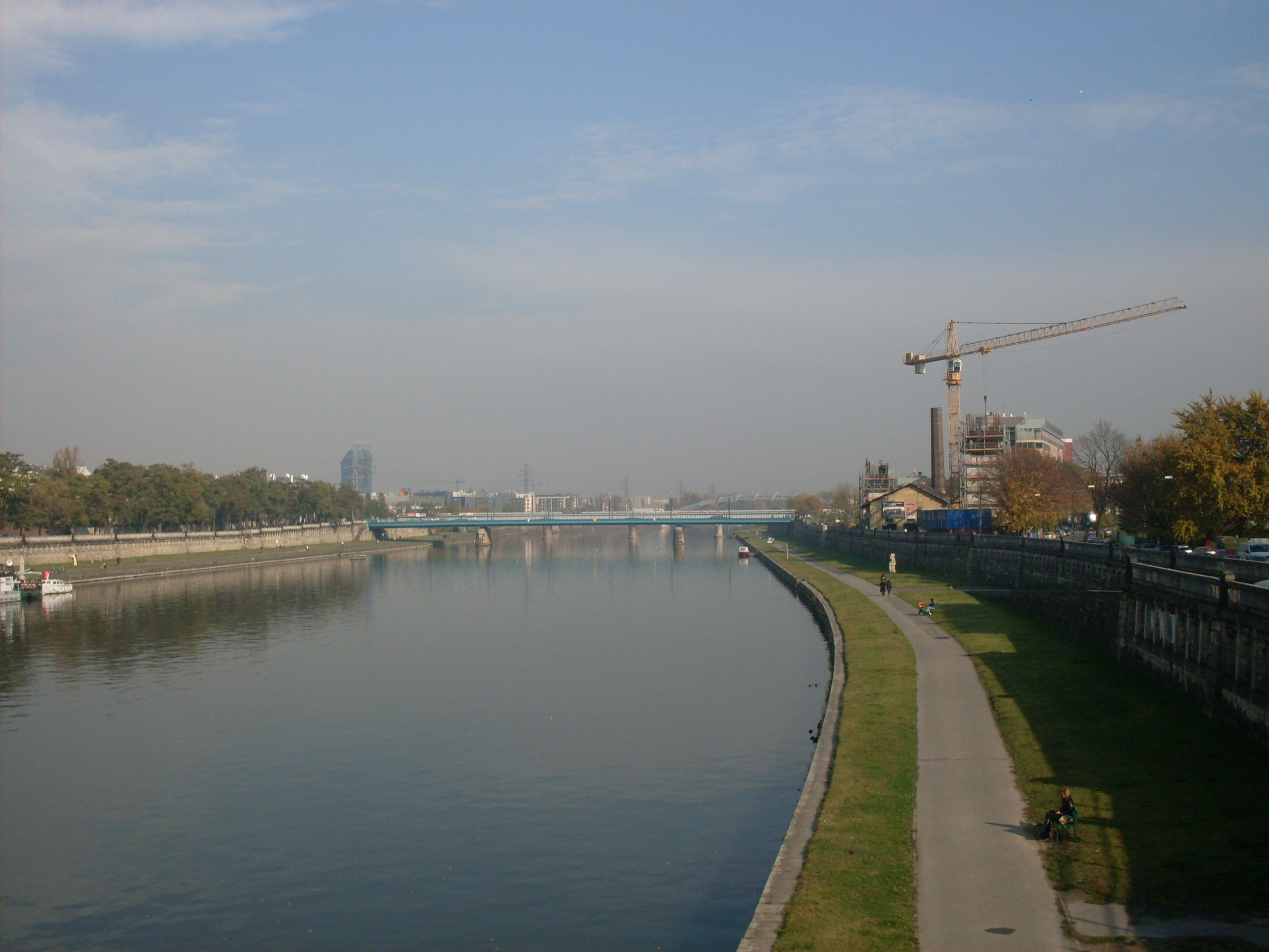 Powstańców Śląskich Bridge in Kraków